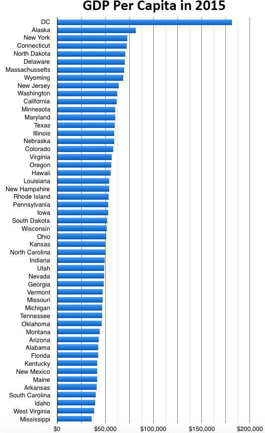 GDP per capita 2015